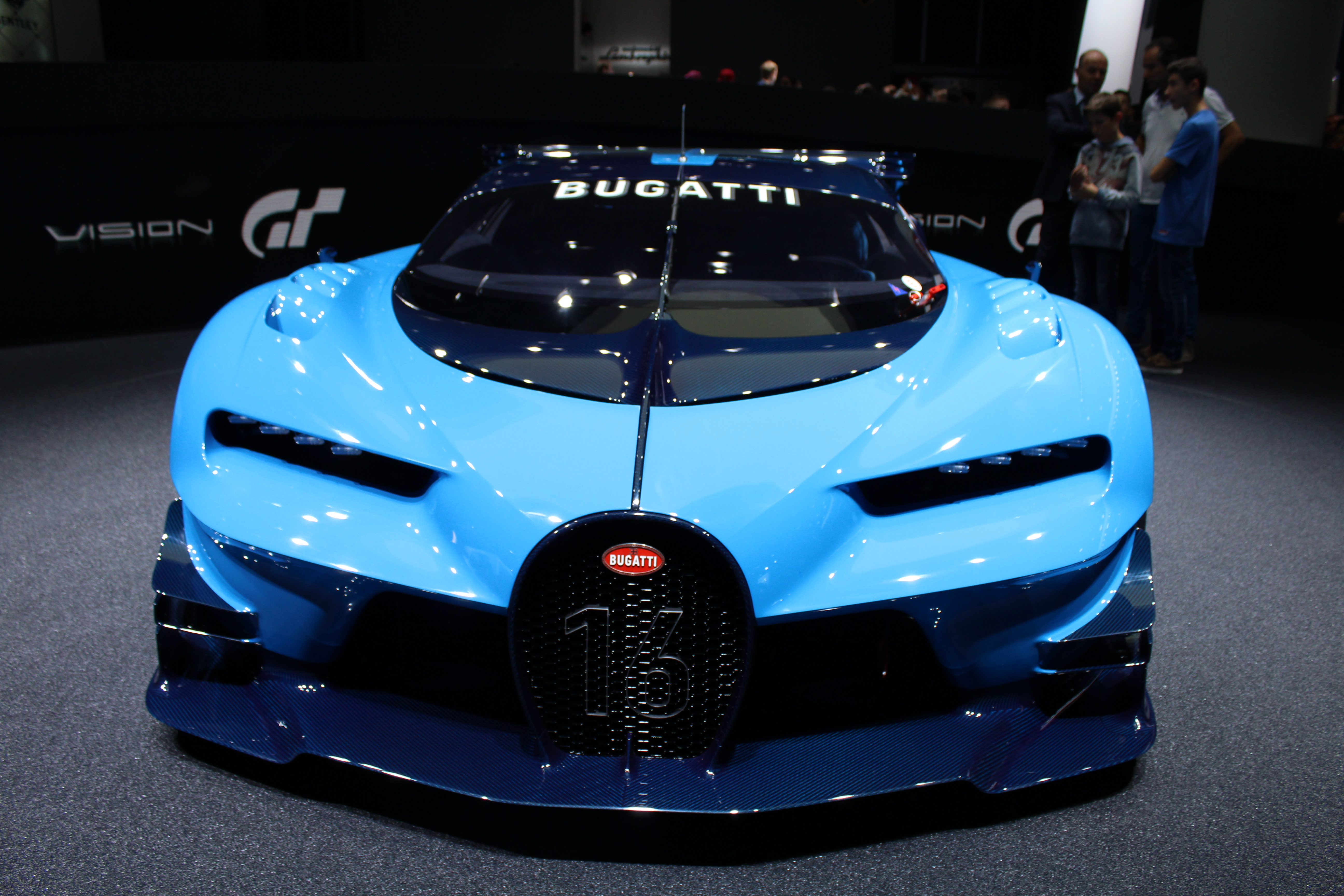 Passenger vehicles being displayed in 2015 International Motor Show Germany.